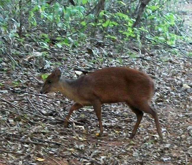 Red Duiker at Pigeon Valley, Durban, South Africa